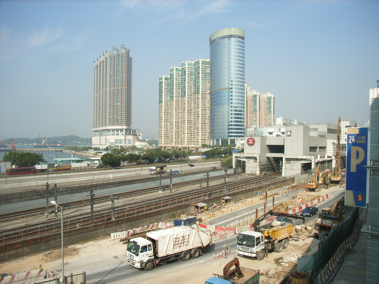 中銀中心 (Bank of China Centre)，是位於zh:香港zh:西九龍zh:大角咀的zh:奧海城一期的zh:寫字樓。 View of Olympian City in Tai Kok Tsui, Hong Kong. From left to right: One Silver Sea, Island Harbourview, Bank of China Centre, Olympic Station Photo by User:OLAMB